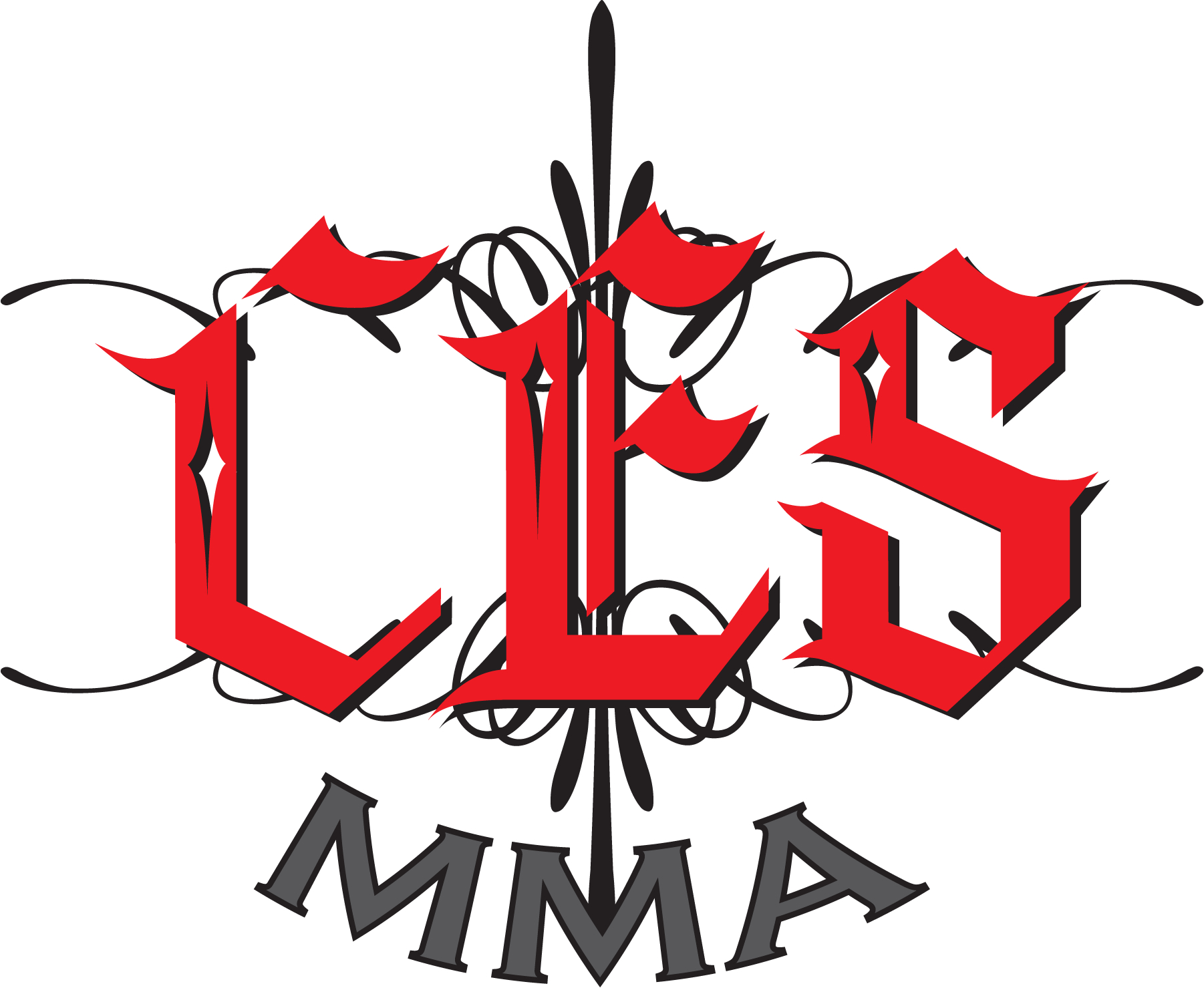 Official logo of CES MMA